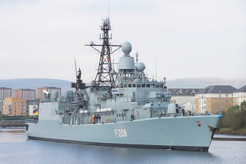 The German frigate Rheinland-Pfalz (F209) arrives for a weekend stay in Glasgow prior to exercise JW112